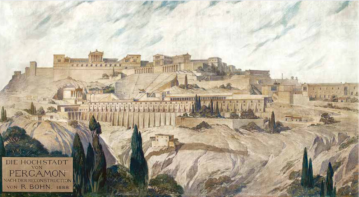 High rise view of Pergamon - R.Bohn - 1888